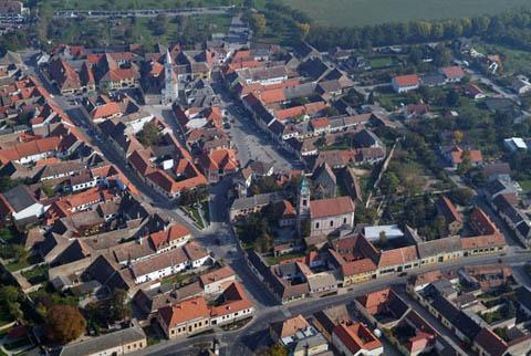 Rust, Austria, aerialphotography